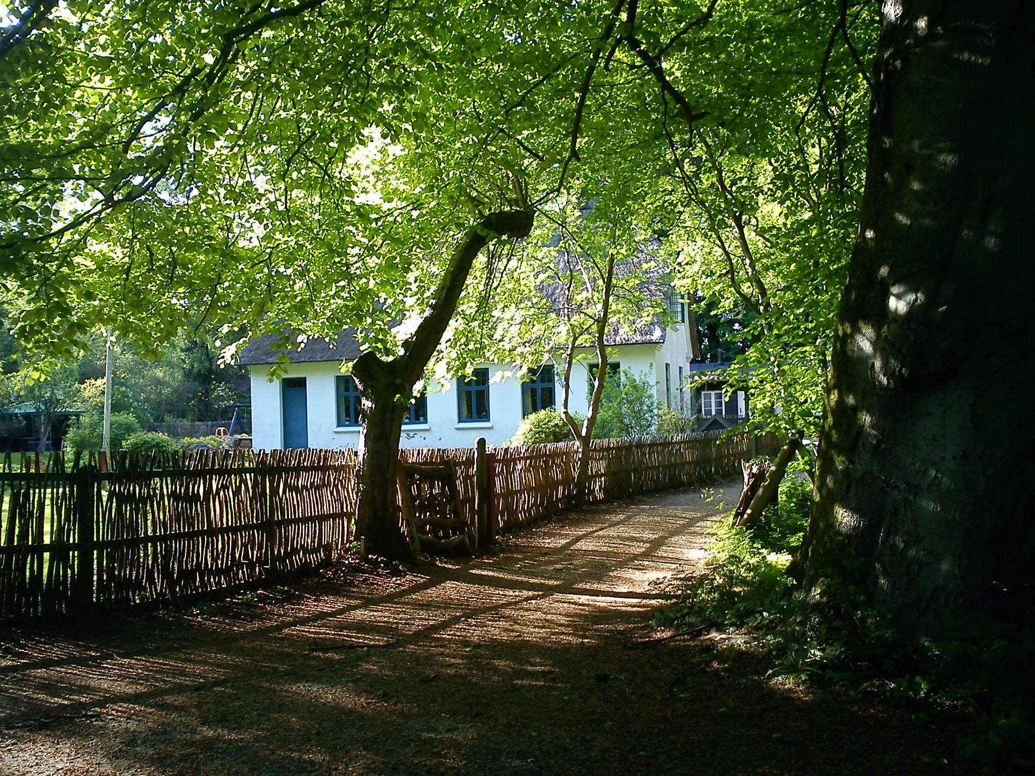 The foresters lodge in Aarhus Botanical Gardens.